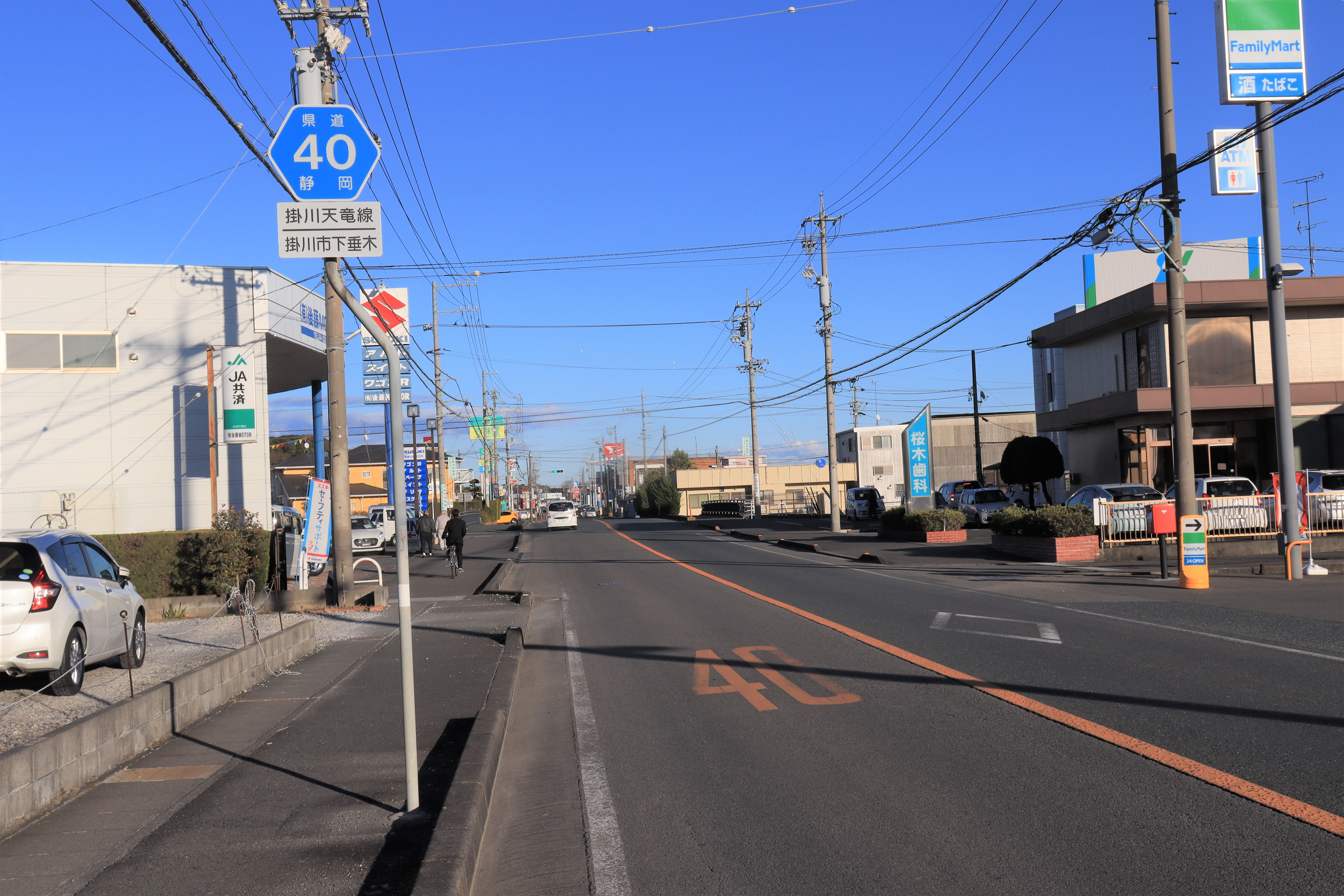 Shizuoka Prefectural Road Route 40 in Shimotaruki, Kakegawa, Shizuoka Prefecture, Japan.